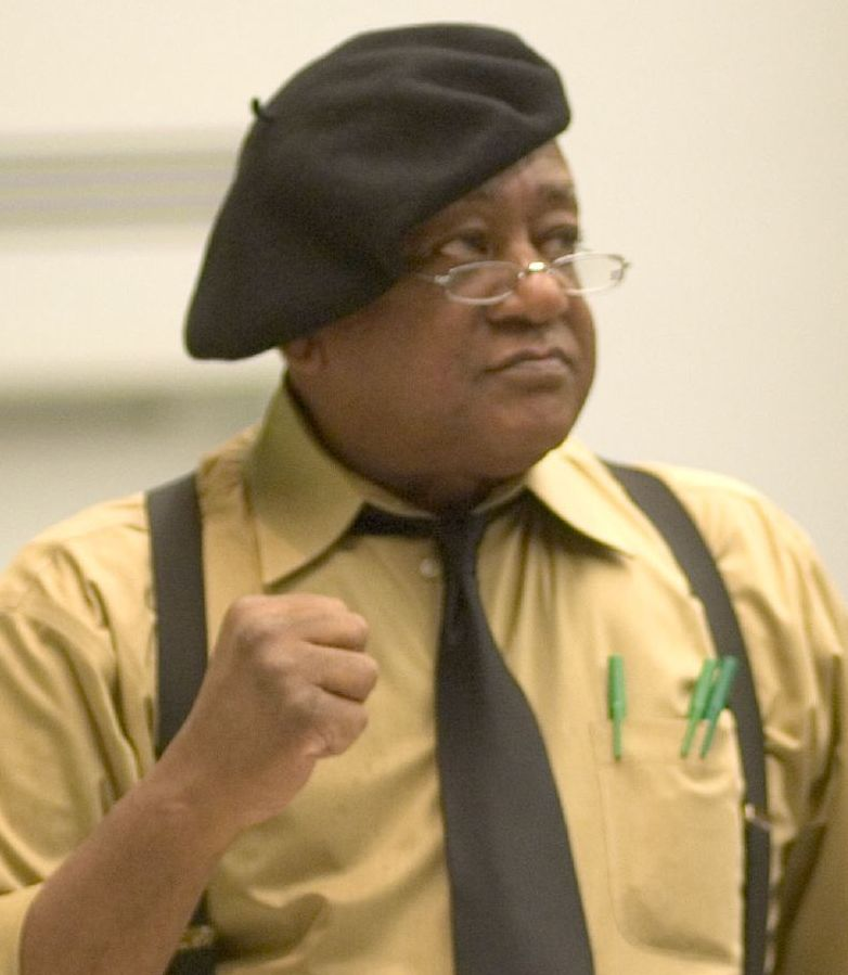 Bobby Seale This file has been extracted from another file: Bobby Seale.jpg This is a retouched picture, which means that it has been digitally altered from its original version. Modifications: cropped. The original can be viewed here: Bobby Seale.jpg. Modifications made by Beao.